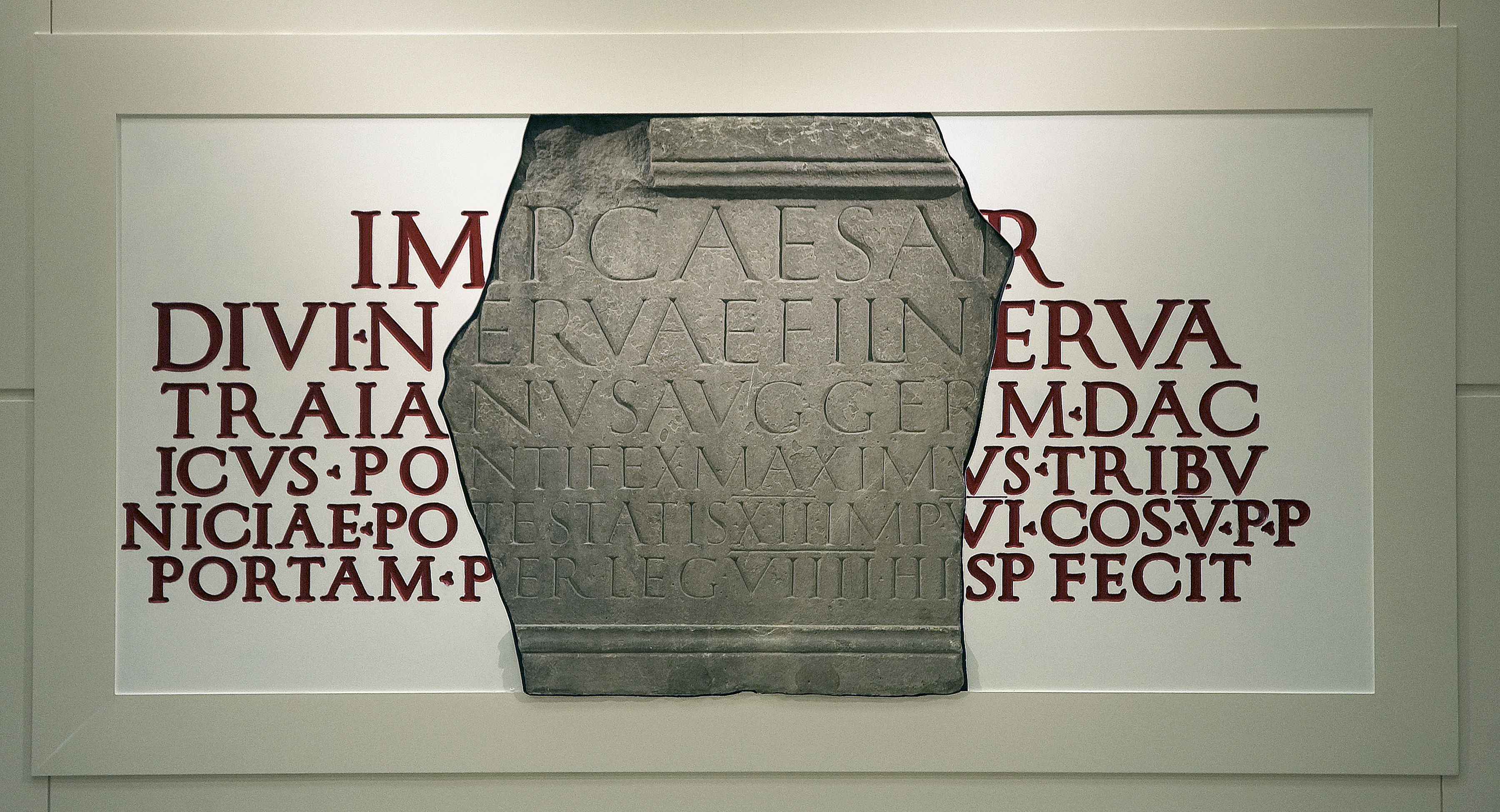 Inscription with well formed Roman letters and numbers. Described in Eboracum as 'Commemorative Tablet fragment in magnesian limestone, comprising the middle part, 3 and 1/3 ft by 3 and 3/4 ft, of an inscription recording the building in stone of the SE gate of the fortress under Trajan. The fine lettering decreases in height from 6 ins in the first line to 3 and 1/2 ins in the last. Found in 1854 at a depth of 26ft to 28ft in King's Square near the house at the corner of Goodramgate and king's Square in making a drain along Goodramgate and Church Street.